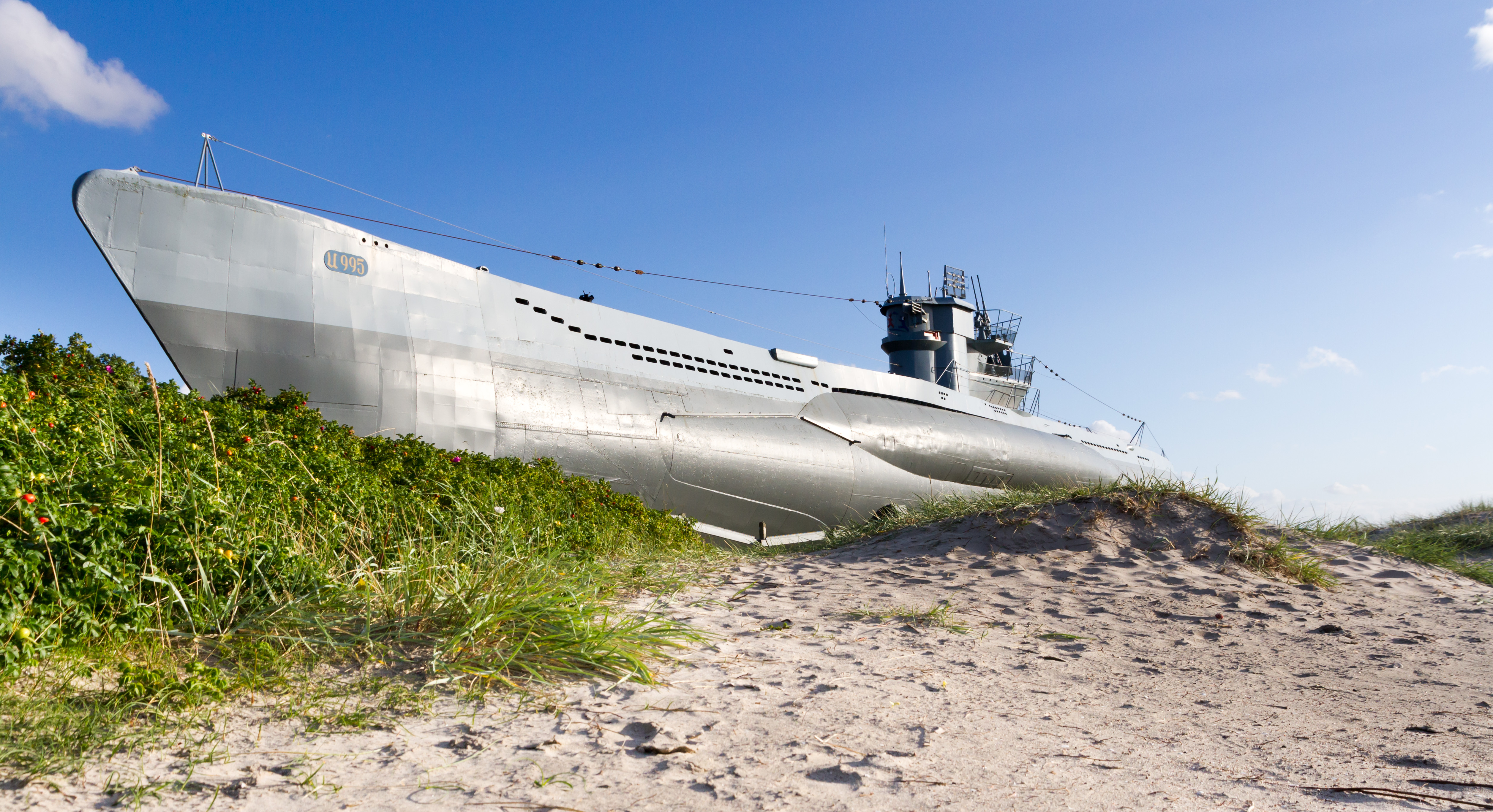 U-995 (submarine, 1943)